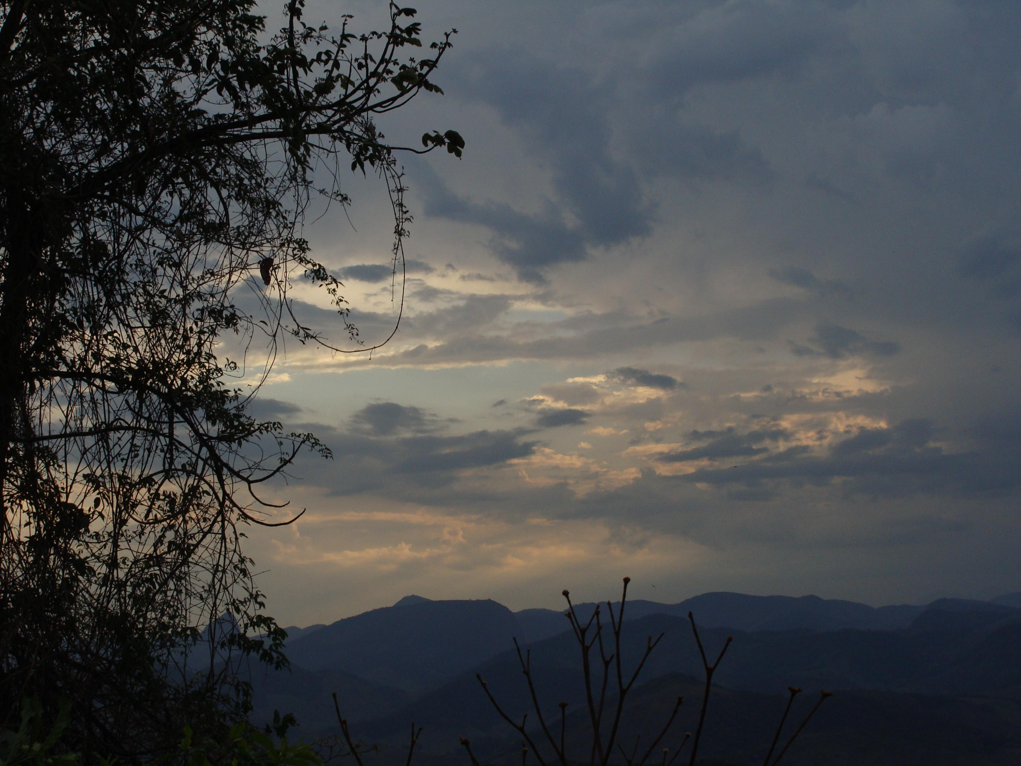 Sunset in Conceição de Ipanema, Minas Gerais, Brazil